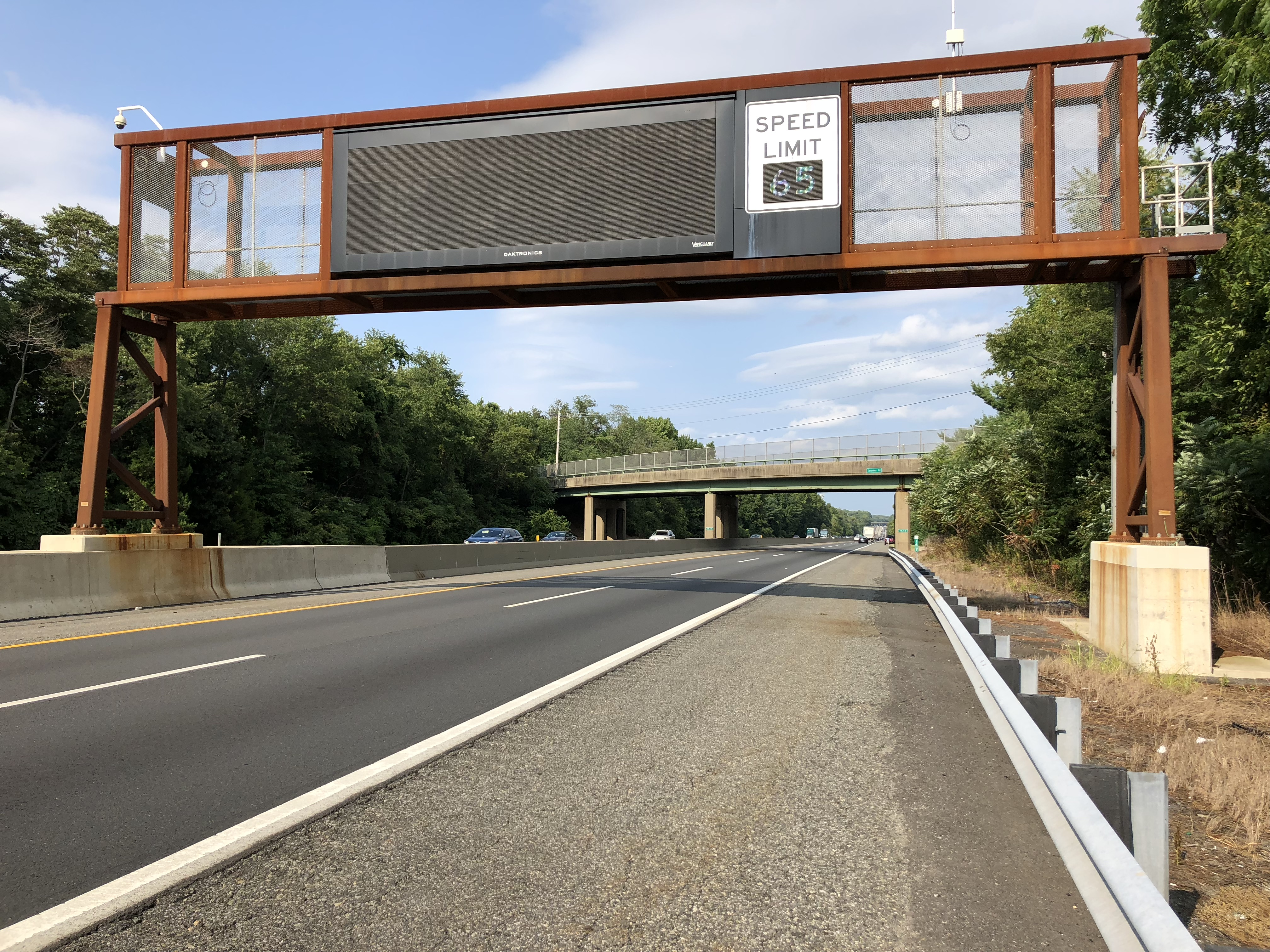 View north along New Jersey State Route 700 (New Jersey Turnpike) between Exit 2 and Exit 3 in East Greenwich Township, Gloucester County, New Jersey